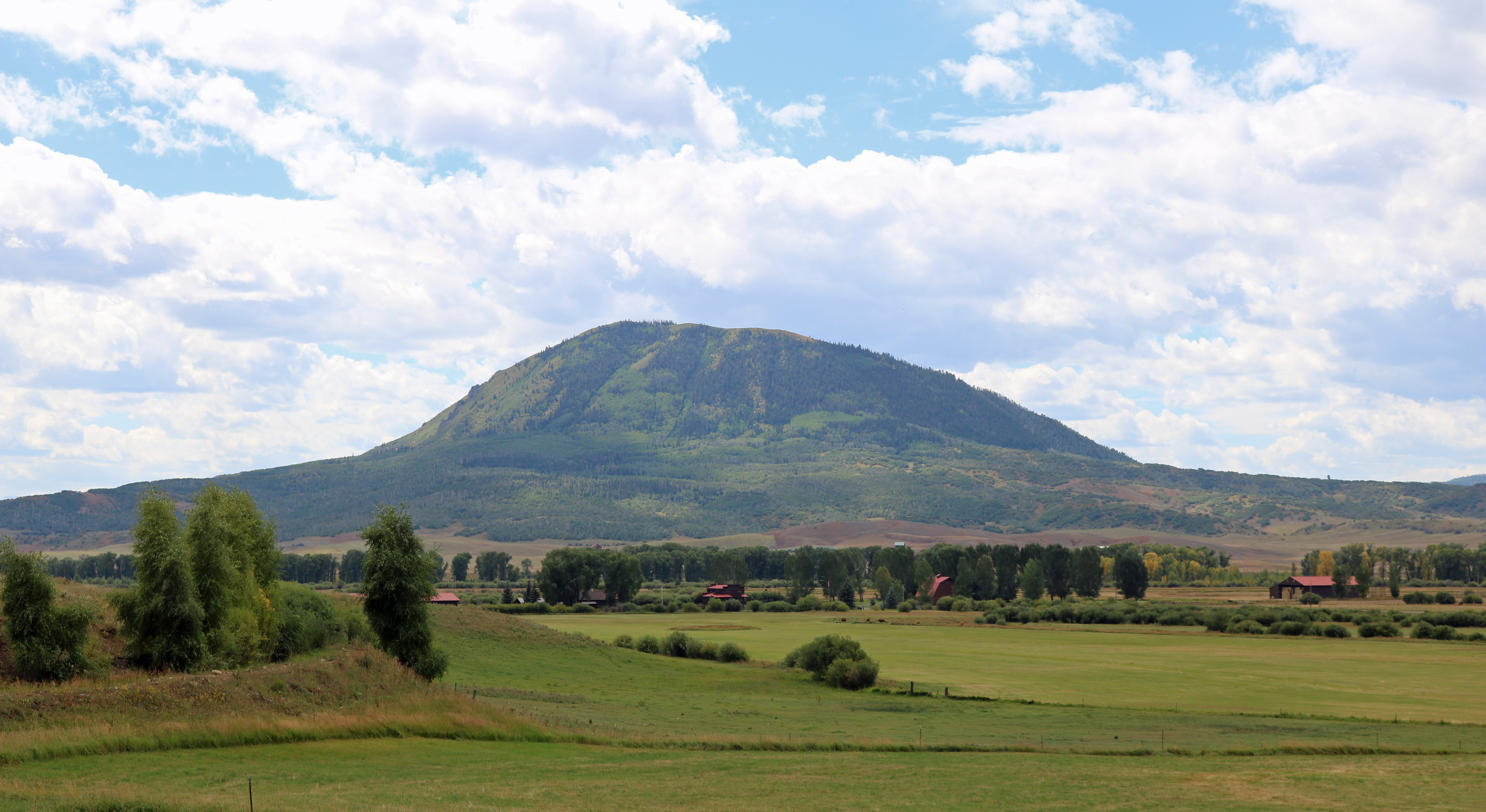 Elk Mountain in Routt County, Colorado. The mountain is located northwest of Steamboat Springs. It is also called The Sleeping Giant.